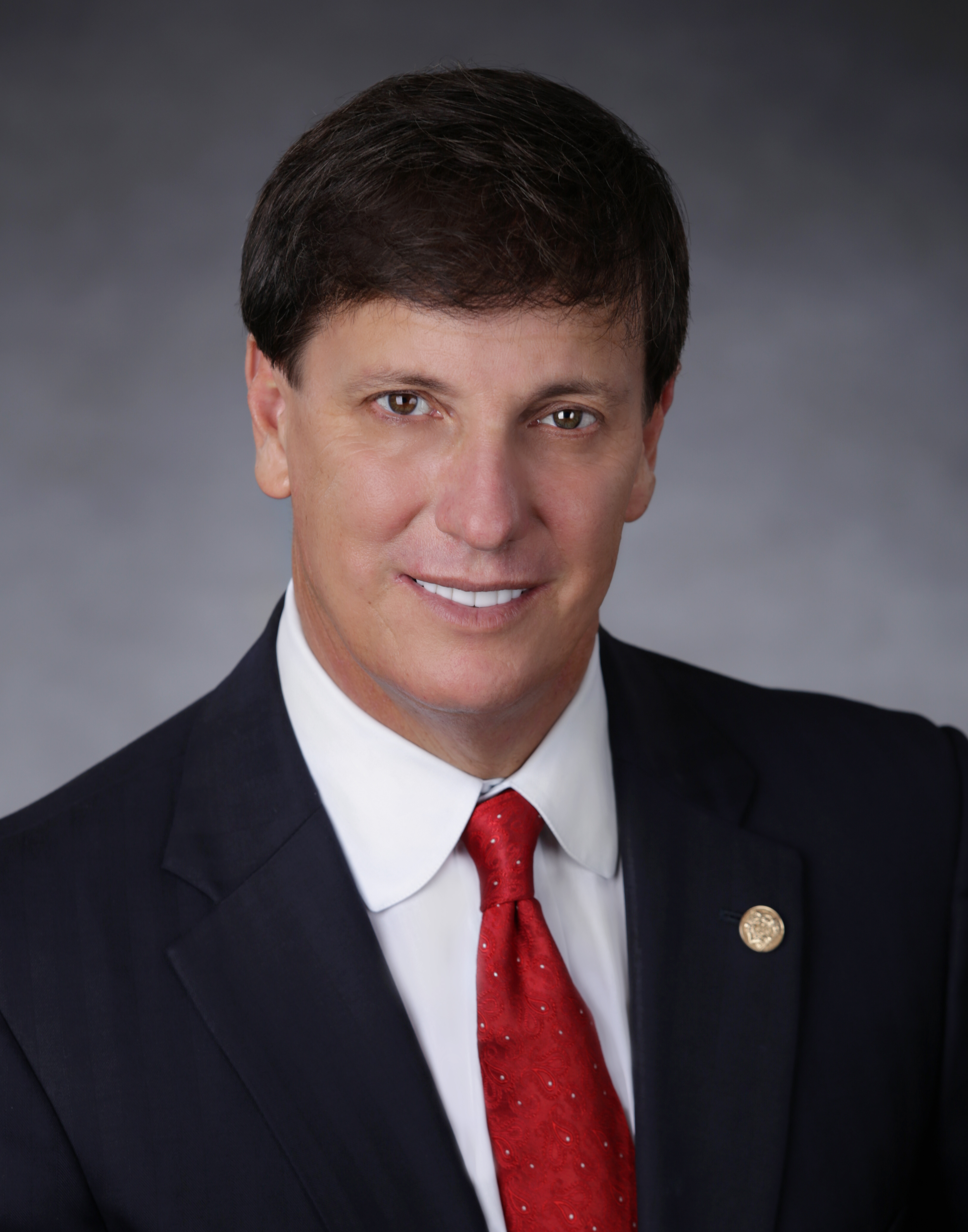 Photograph of Bill Kerdyk Jr